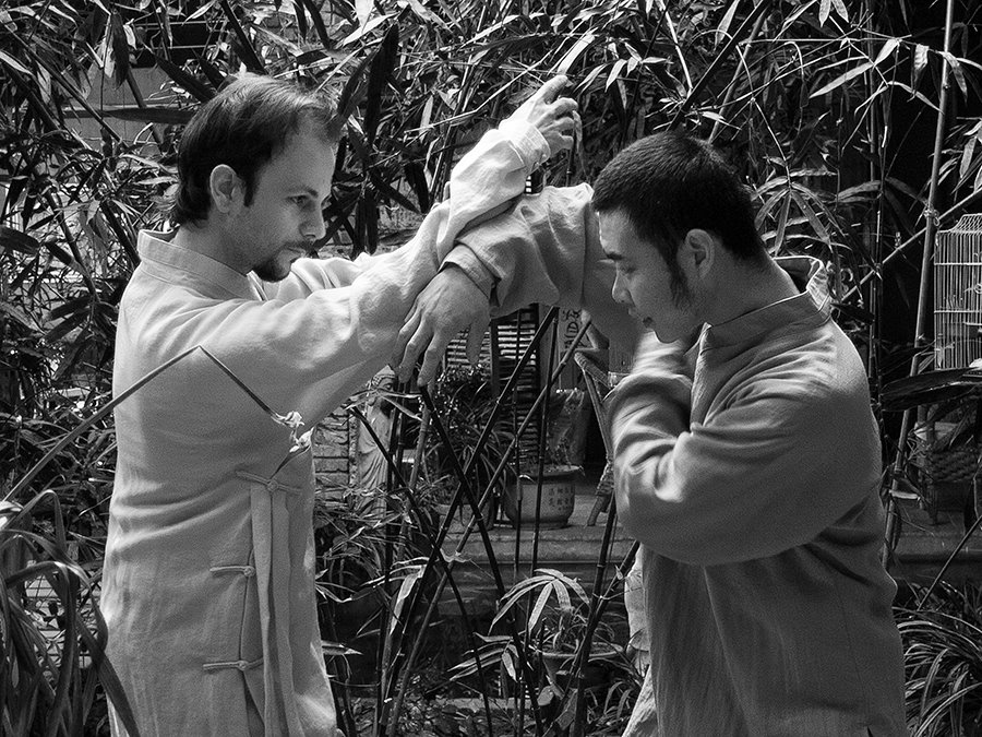 Mattia Baldi and master Zhaobaozhu in training Wenshnegquan KungFu